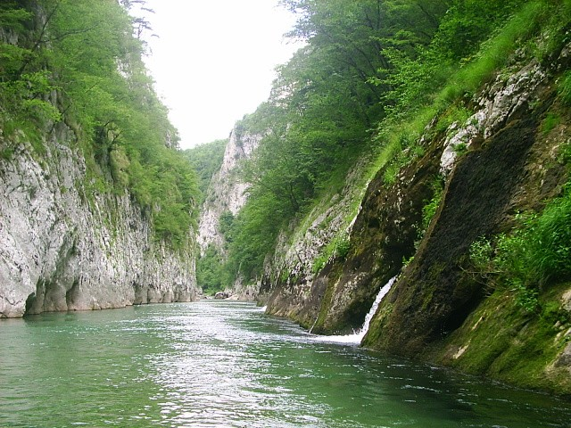 Narrowest section of the Neretva River canyon, BiH